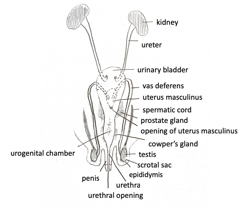 drawing of the Male rabbit reproduction system